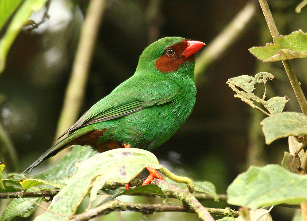 A Grass-green Tanager (Chlorornis riefferii) photographed in northwest Ecuador. 3/10/2007